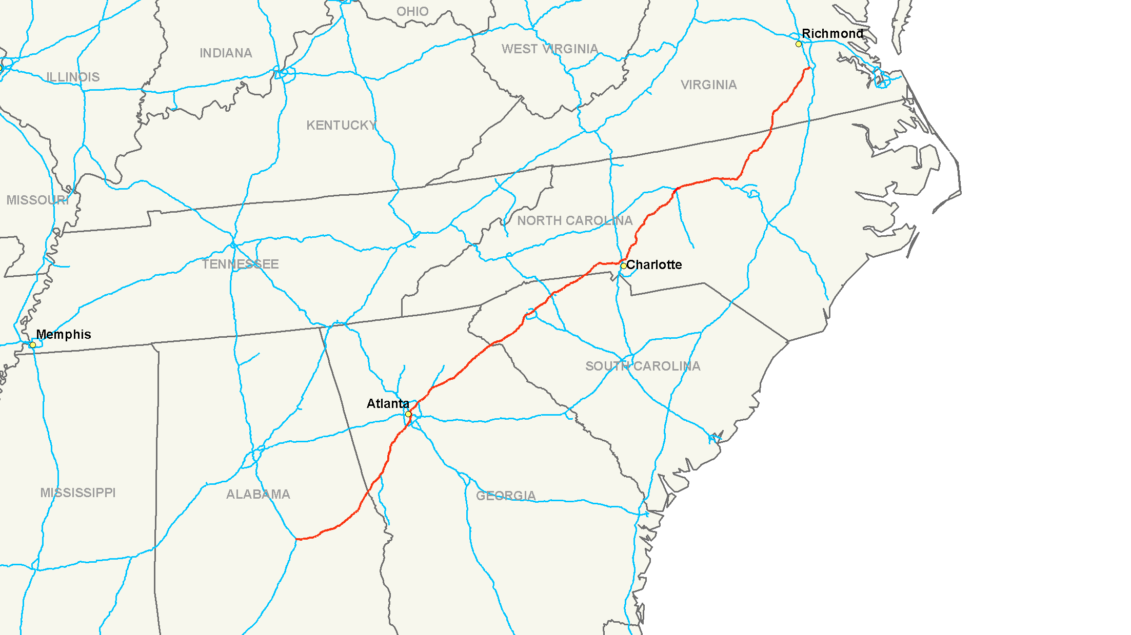 Map of Interstate 85